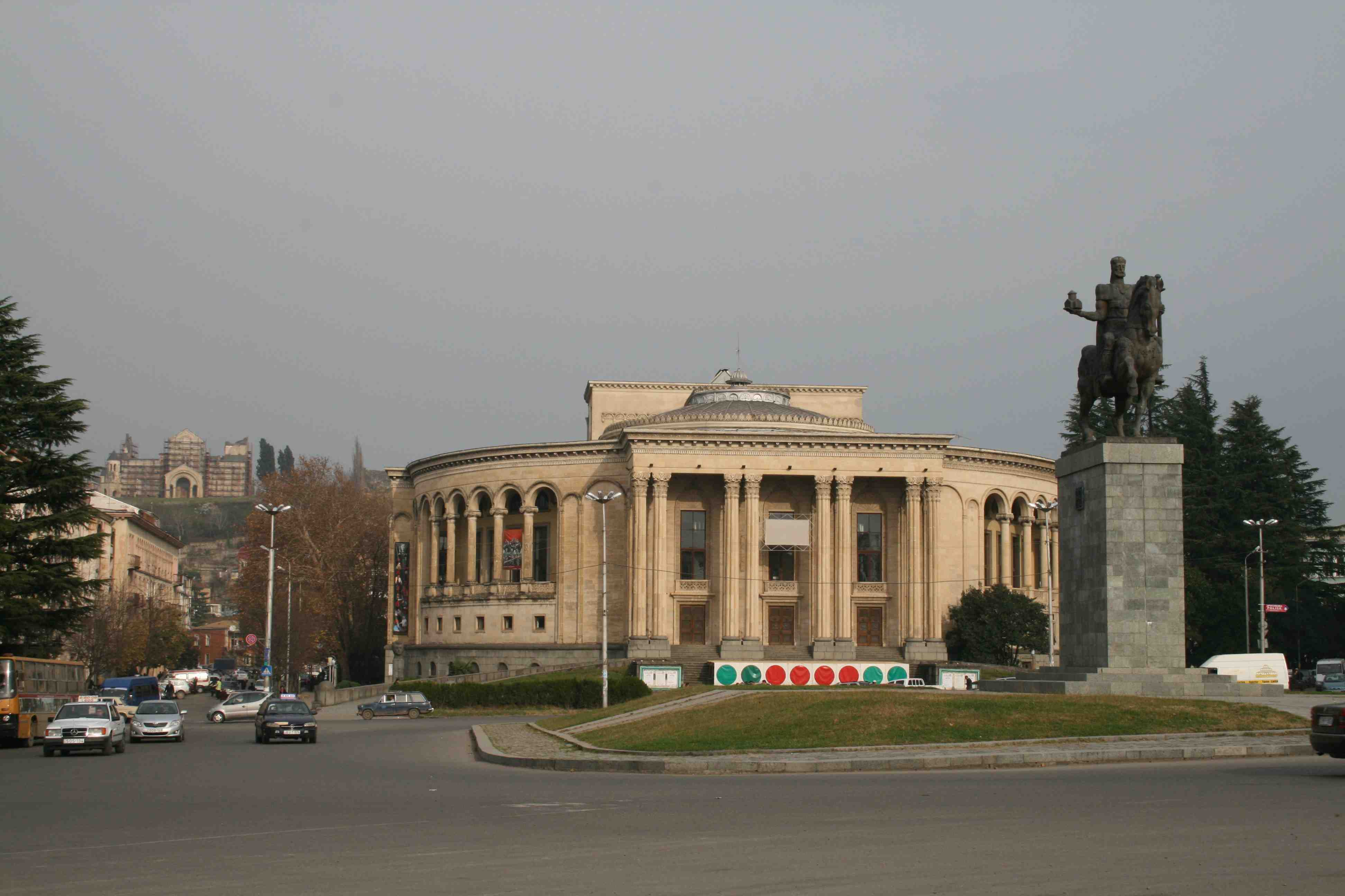 Kutaisi central square